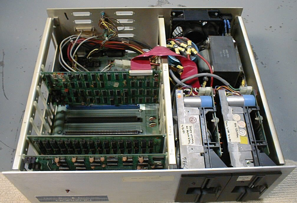 This is the inside view of a NorthStar Horizon vintage computer, circa 1980. The plywood cover has been removed. The left half contains the motherboard with slots for cards, including memory, processor, and I/O cards. The right front quarter contains the two 5.25 inch floppy disk drives, mounted vertically. The right rear quarter contains the power circuits, with the large exposed transformer and capacitors clearly visible.